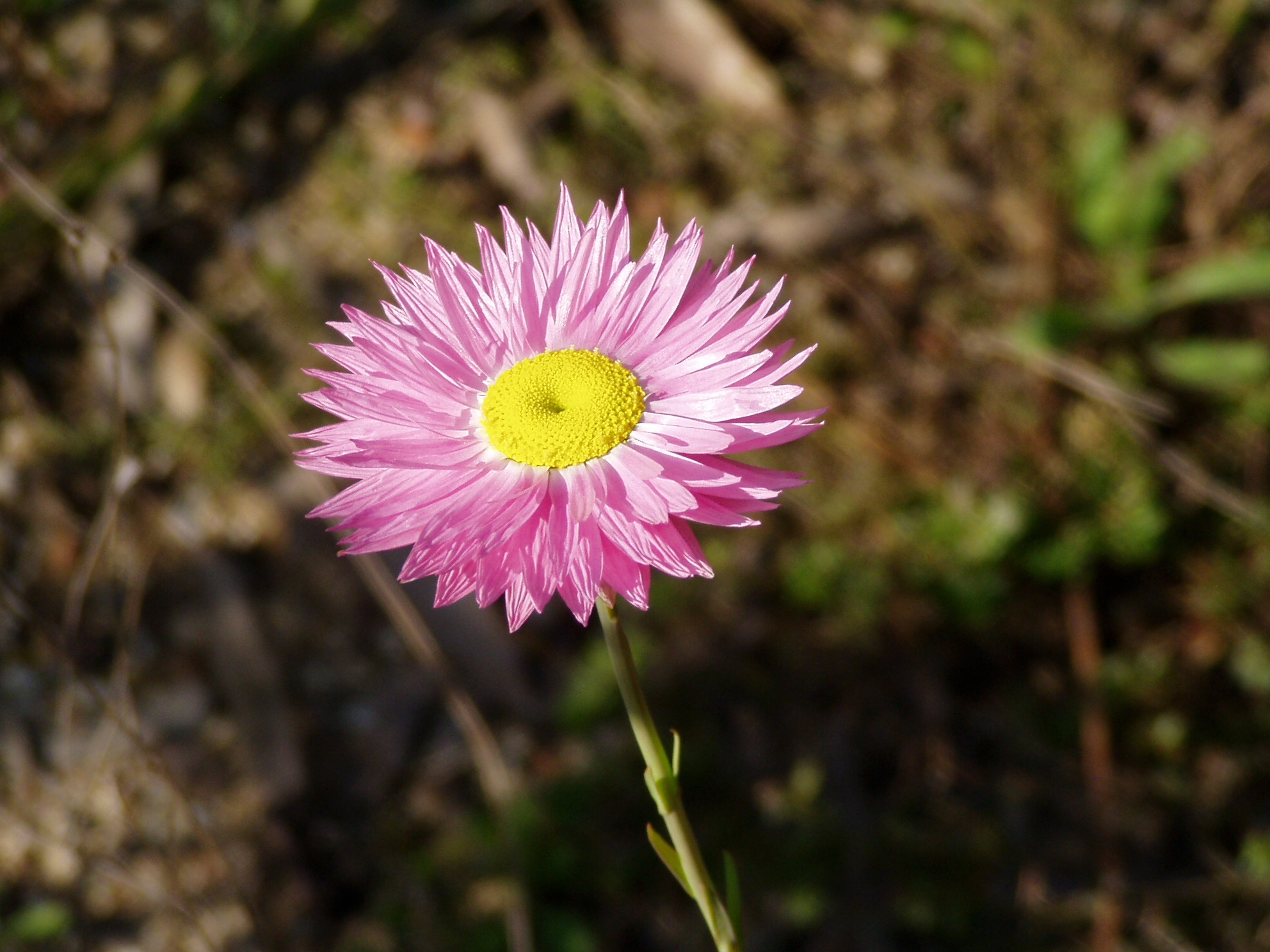 Description: Rhodanthe chlorocephala subsp. rosea Location: Australian National Botanic Gardens, Canberra, Australian Capital Territory, Australia Date: 2005-09-21 Source: picture taken by Danielle Langlois Licence: Released under GFDL and Creative Commons licenses by the photographer